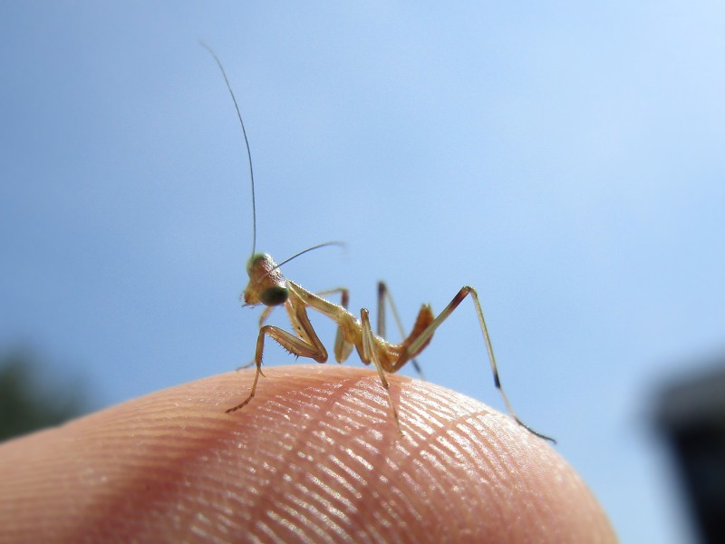 Sphodromantis viridis (Mantidae) - (larva - nymph), Río Guadaiza, Spain